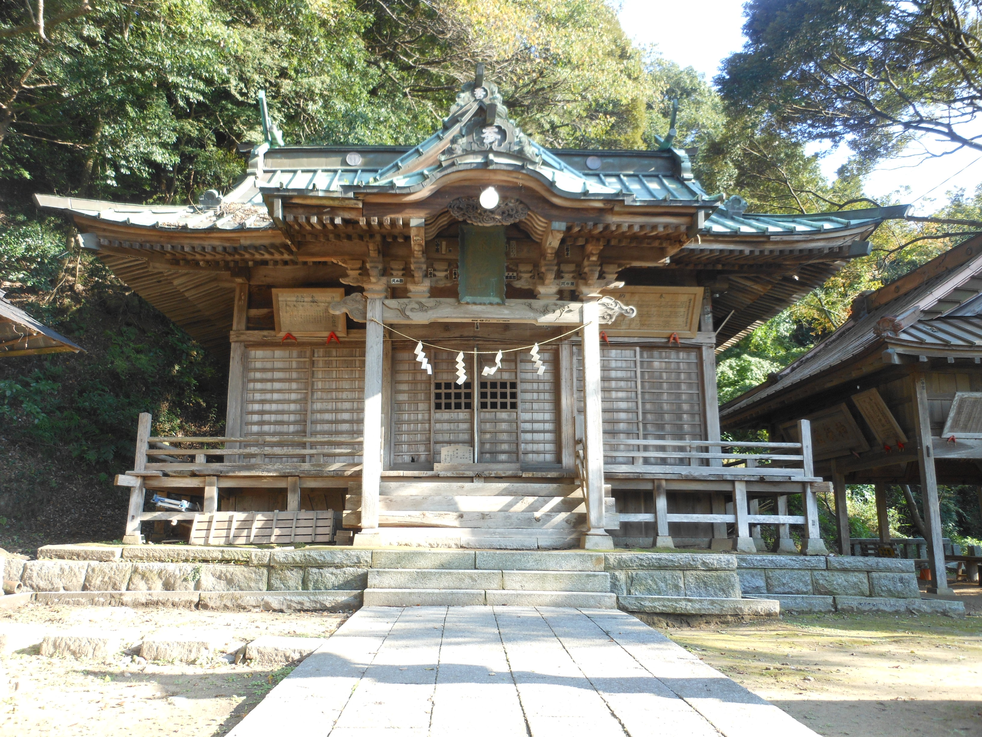 This is the haiden or worship hall of Kokage shrine in Tsukuba, Ibaraki, Japan.